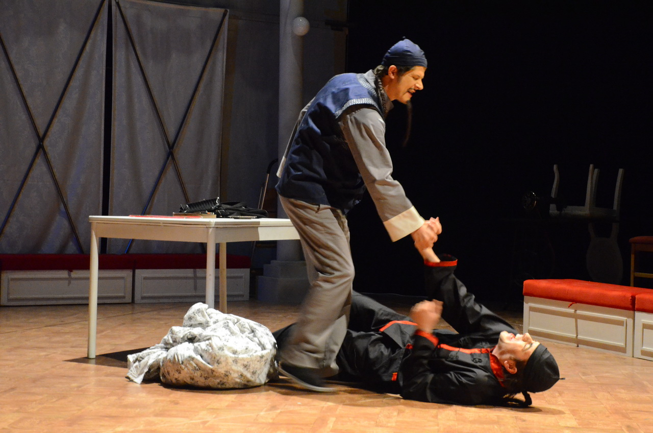 “Zoyka's Apartment", a Tragic Farce in three acts written by Mikhail Bulgakov; directed by Dejan Mijač, Drama of the Serbian National Theatre, Novi Sad, 2010/2011; Milovan Filipović, Marko Savic Srpski (latinica): "Zojkin stan", tragedija u tri čina Mihajla Bulgakova u režiji Dejana Mijača, Drama Srpskog narodnog pozorišta, Novi Sad, 2010-2011; Milovan Filipović, Marko Savić Српски (ћирилица): "Зојкин стан", трагедија у три чина Михајла Булгакова у режији Дејана Мијача, Драма Српског народног позоришта, Нови Сад, 2010-2011; Милован Филиповић, Марко Савић